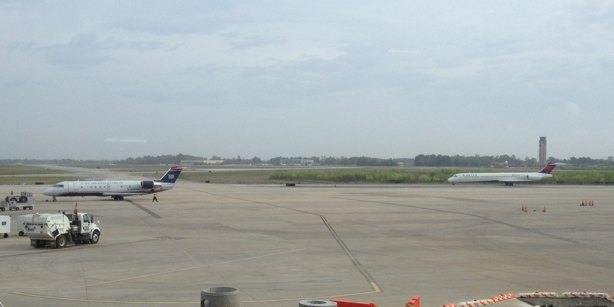 View of the airfield of Charleston International Airport from the passenger terminal in April 2014.